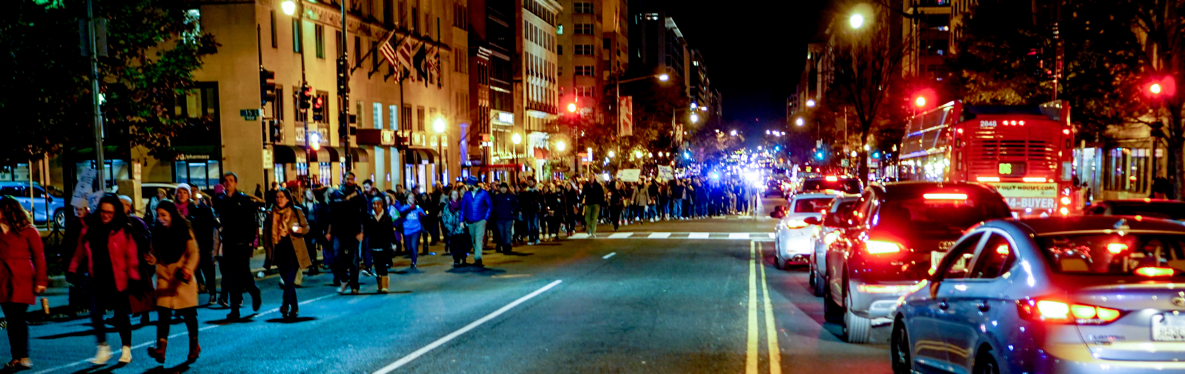 2016.11.12 Anti-Trump Protest Washington, DC USA 08720